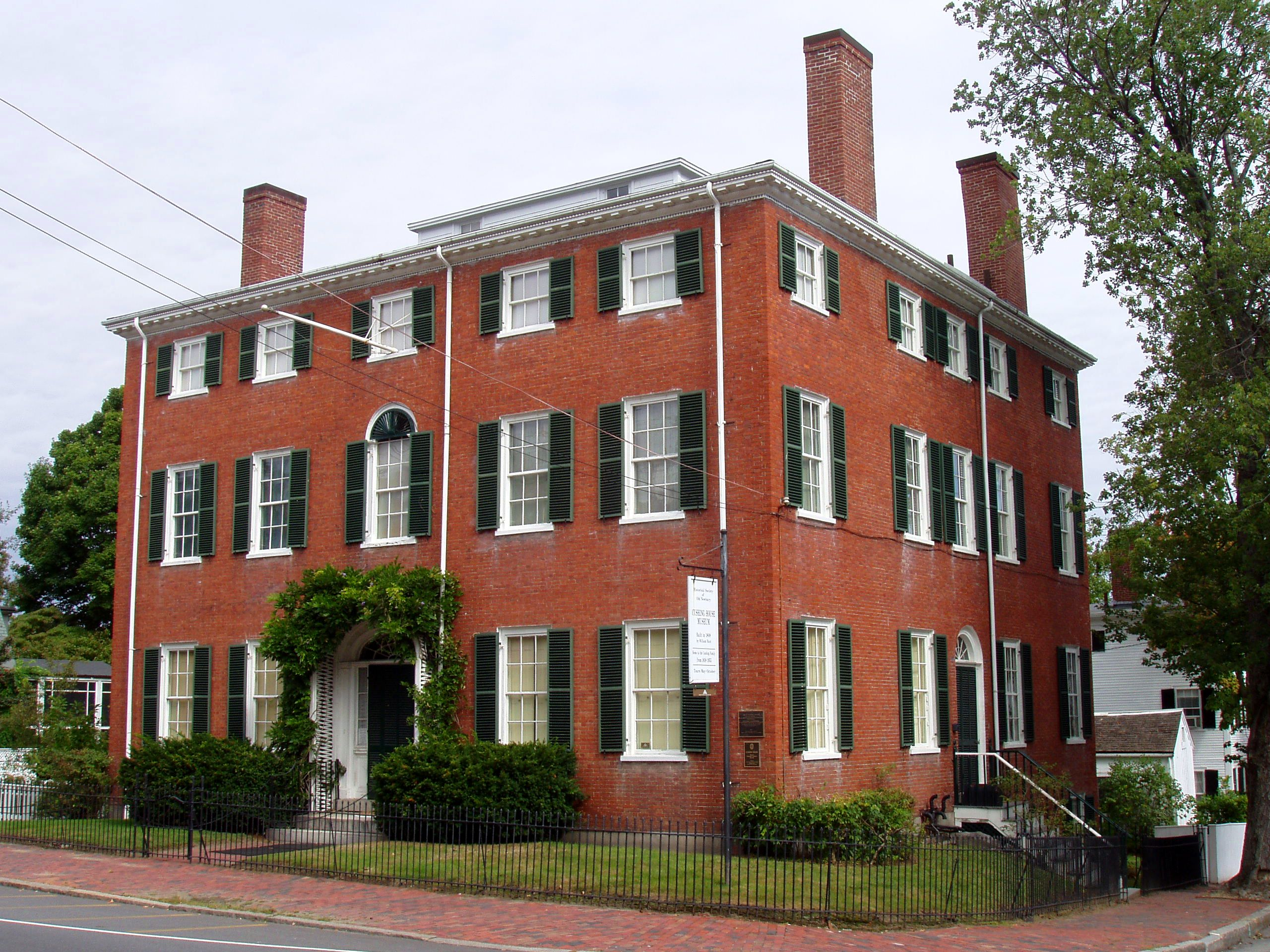 Cushing House Museum and Garden - Newburyport, Massachusetts. Photograph taken by me, September 2005.